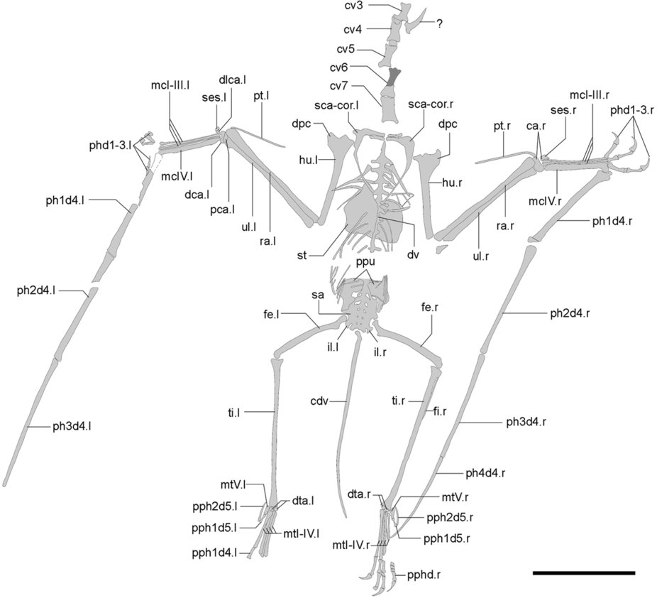 Figure 2: Line drawing of Douzhanopterus zhengi gen. et sp. nov. This illustration is based mostly on the part of the holotype, while dark grey areas are based on the counterpart. Abbreviations: ca, carpus; cdv, caudal vertebra; cv3–7, third to seventh cervical vertebra; dca, distal syncarpal; dlca, distal lateral carpal; dpc, deltopectoral crest; dta, distal tarsal; dv, dorsal vertebra; fe, femur; fi, fibula; hu, humerus; il, ilium; mcI-IV, metacarpal I-IV; mtI-V, metatarsal I-V; pca, proximal syncarpal; pphd, phalanges of pedal digit; pph1d4, first phalanx of pedal digit IV; pph1/2d5, first or second phalanx of pedal digit V; phd1–3, phalanges of manual digit I-III; ph1-4d4, first to fourth phalanx of manual digit IV; ppu, prepubis; pt, pteroid; ra, radius; sca-cor, scapulocoracoid; ses, sesamoid; st, sternum; sc, sacrum; ti, tibia; ul, ulna; l, left; r, right; ?, unknown element. Scale bar, 50 mm.